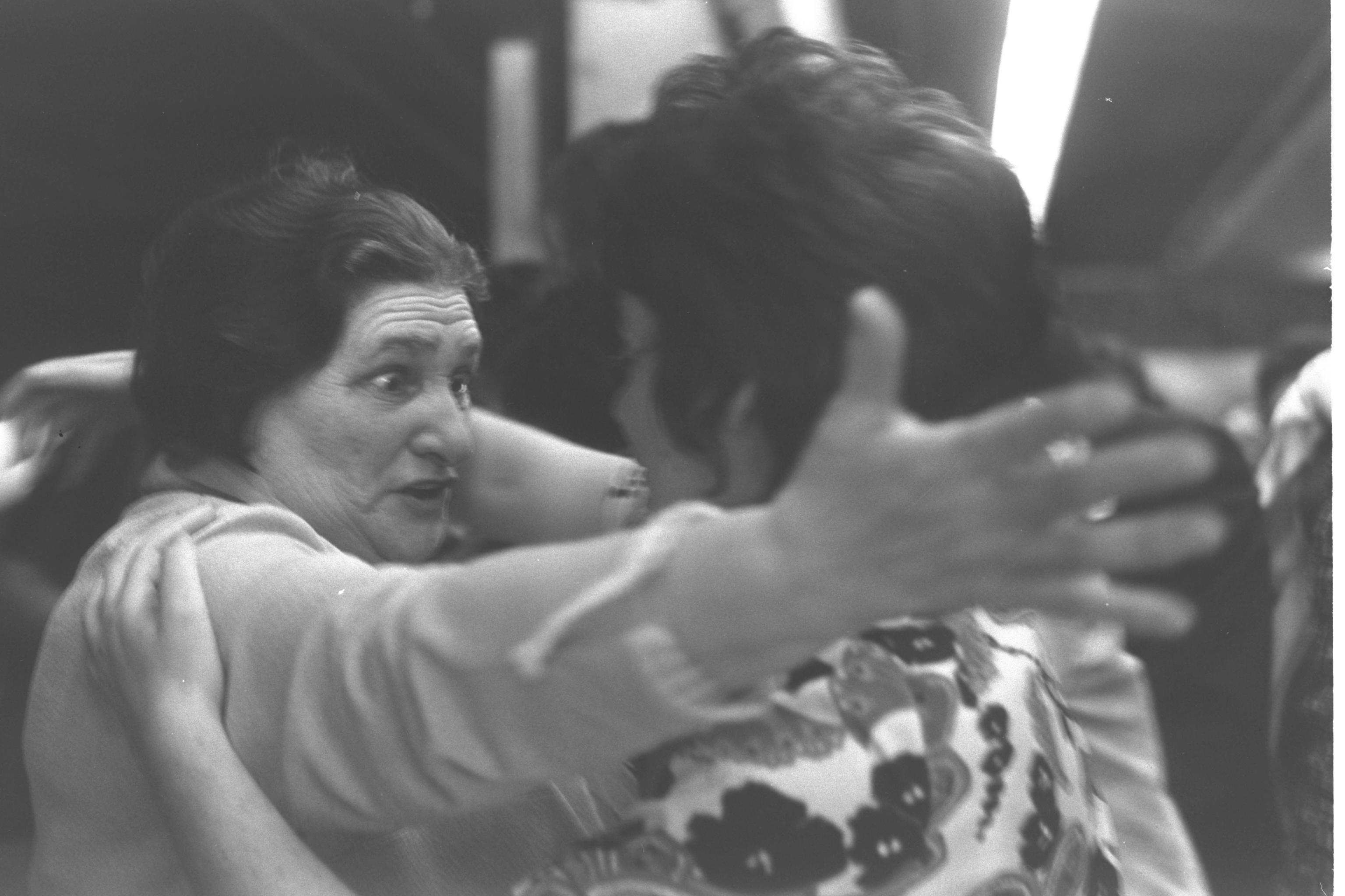 A long awaited moment of reunion between a new immigrant from the Soviet Block and her Israeli relatives at Lod Airport. עולה חדשה מברית המועצות שהגיעה זה עתה לישראל מחבקת את קרובי משפחתה בשדה התעופה בן גוריון בלוד. Photo: Moshe Milner (1946–) Alternative names Miylner, Moše; Milner, Mosheh; Moshé Milner; Milner, M.; Mîlner, Moše; Miylner, MošehDescriptionIsraeli photographerצלם ישראליDate of birth 1946 Location of birth Germany Authority control : Q28750411 VIAF: 100999744 ISNI: 0000 0001 0804 0507 LCCN: n82072104 GND: 115699732 BNF: 15548788n WorldCat creator QS:P170,Q28750411 , 03/25/1971